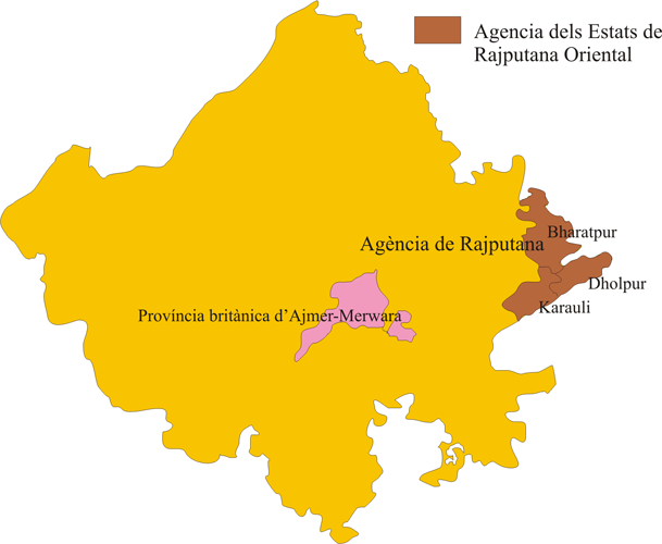 Agency of Rajputana Eastern States